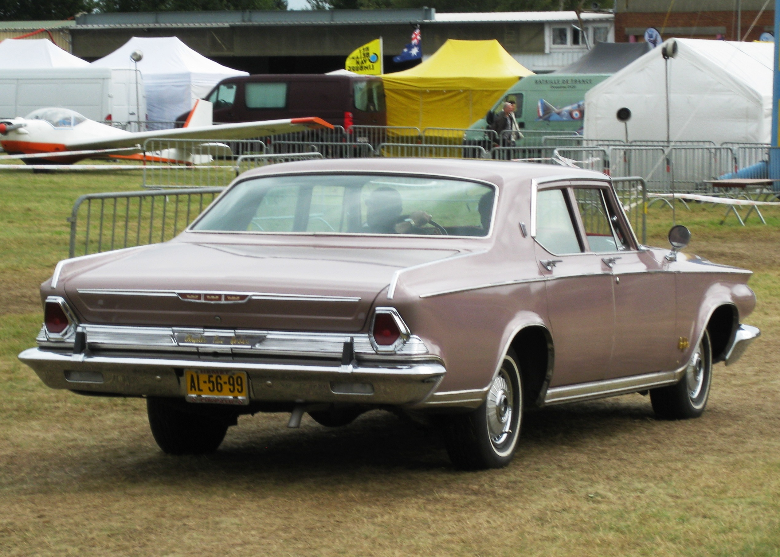 Chrysler New Yorker. First registered June 1964, first registered in the Netherlands October 2003.